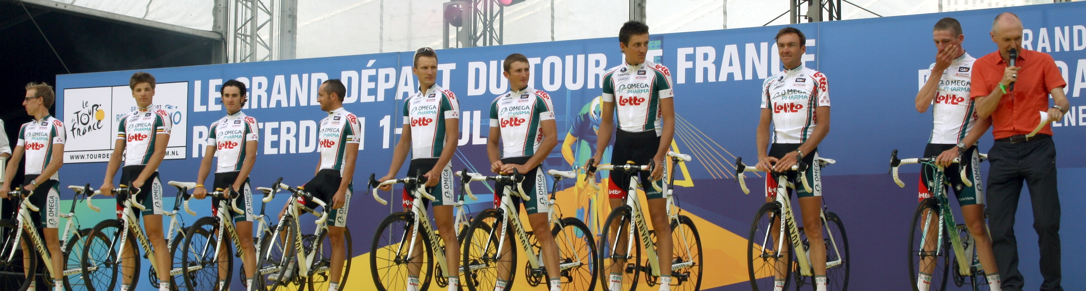 Omega Pharma-Lotto at the team presentation of the 2010 Tour de France in Rotterdam